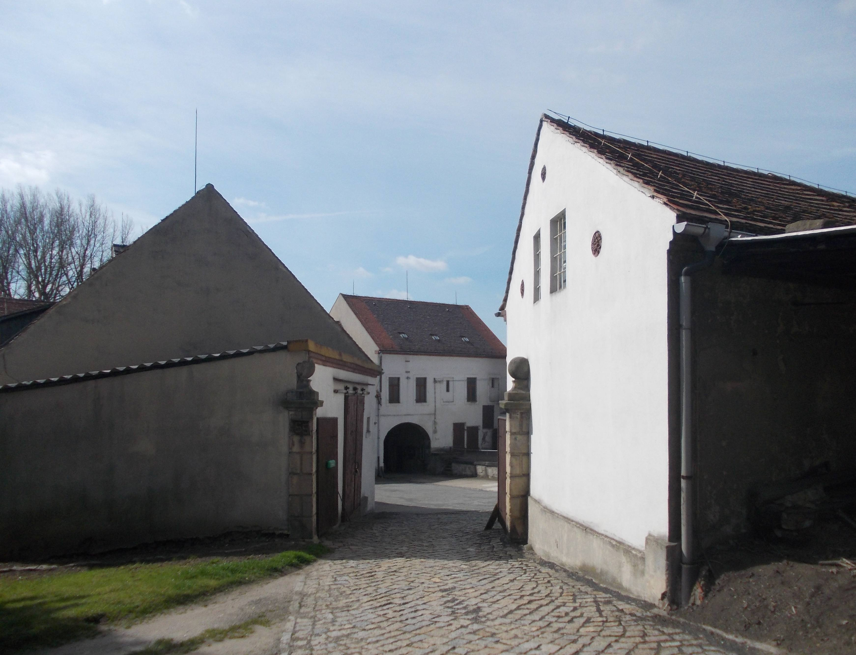 Lower Hasenberg Estate on the northern outskirts of Zittau (Görlitz district, Saxony)